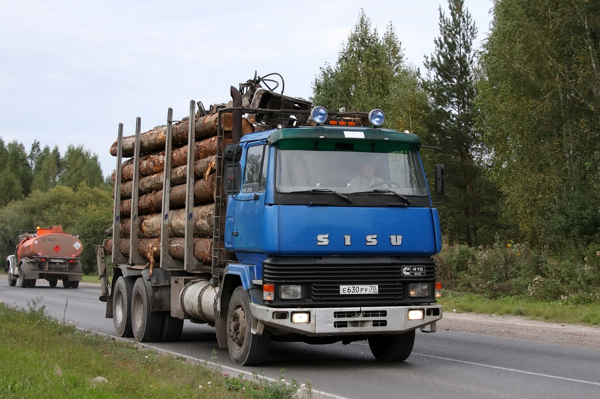 Sisu SM 312 in Tomsk, Russia